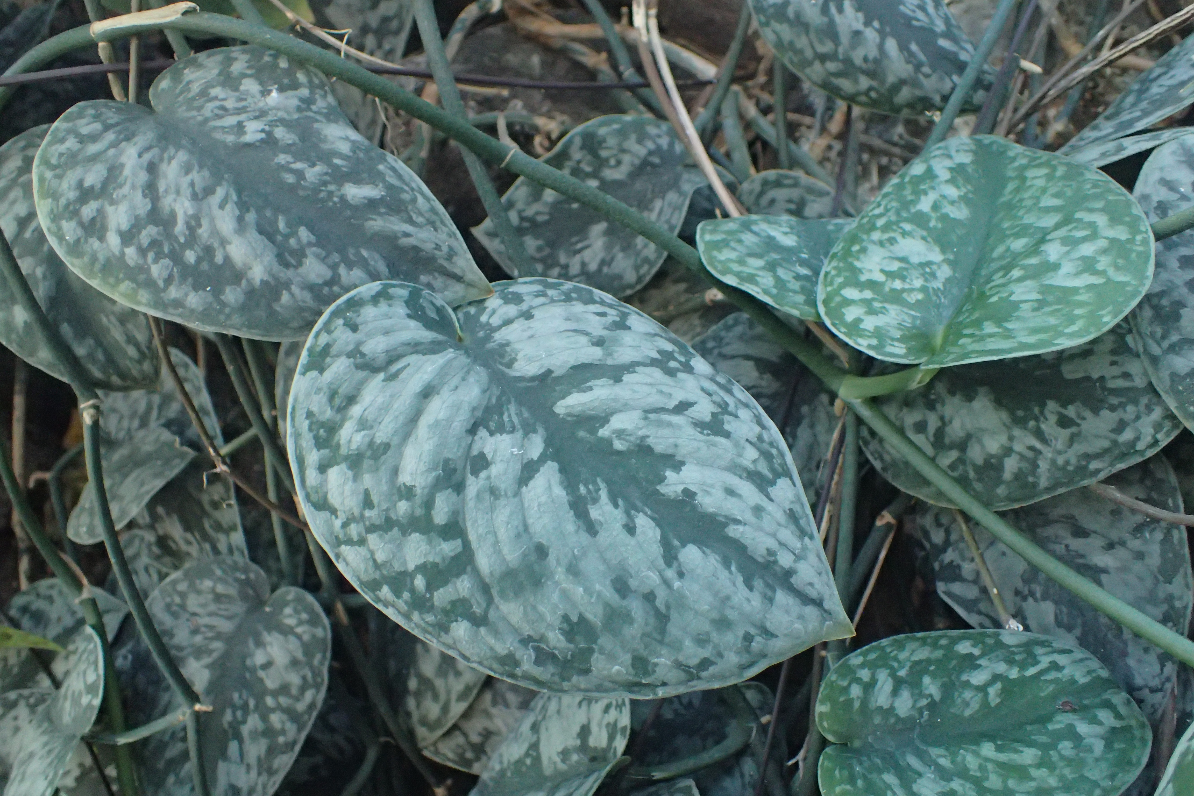 Scindapsus pictus in the Botanischer Garten, Berlin-Dahlem